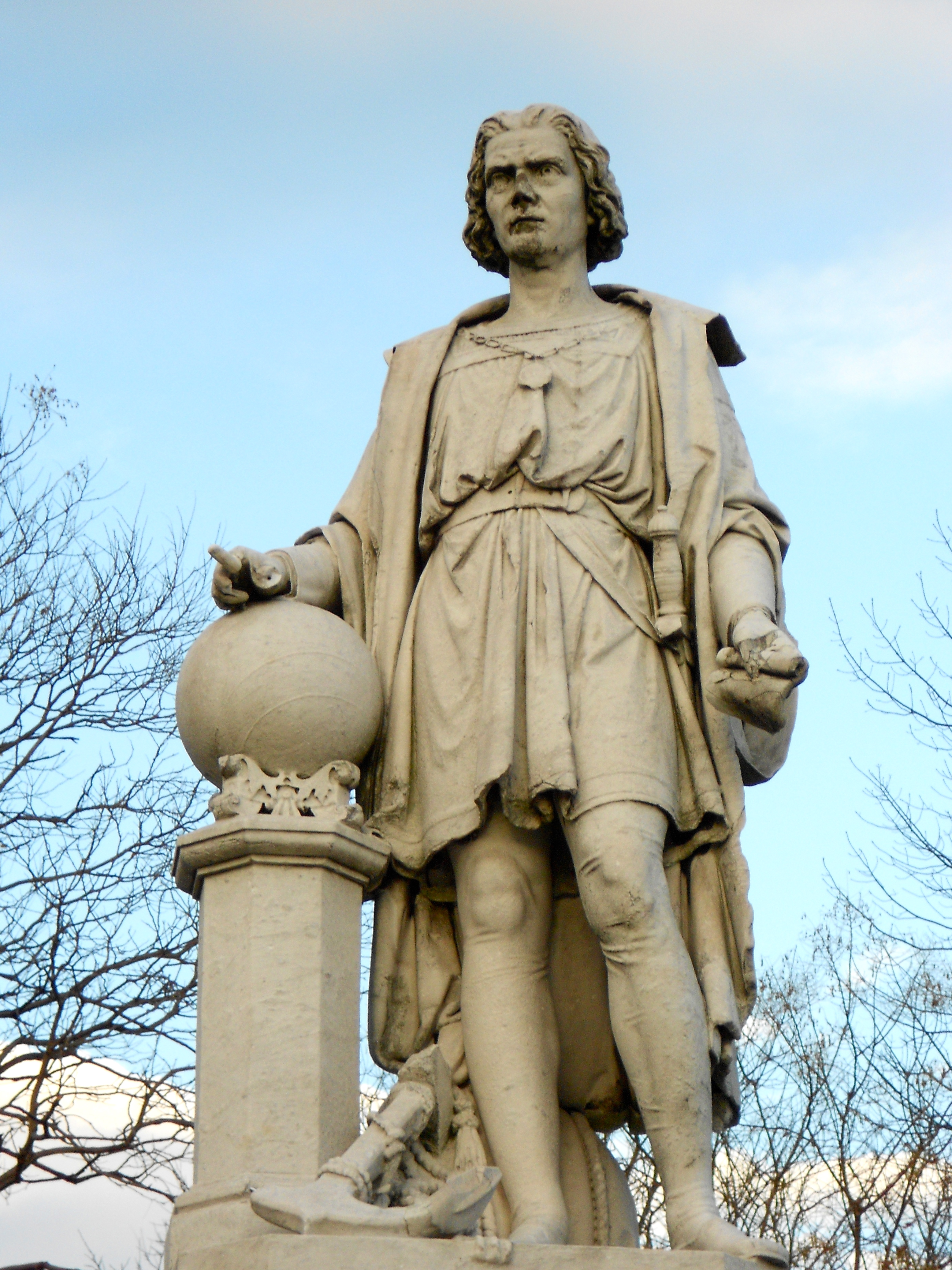 Columbus Monument attributed to Emanuele Caroni originally installed in the 1876 Philadelphia Cenntenial Exposition in what's now Fairmount Park. Moved to near Marconi Plaza, Broad and Oregon Streets, Philadelphia. Italian marble with stone base. Smithsonian reference IAS PA00062